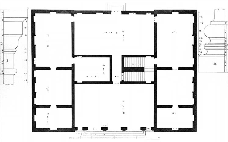 Villa Trissino a Cricoli, Vicenza. Drawing from Ottavio Bertotti Scamozzi, 1778.